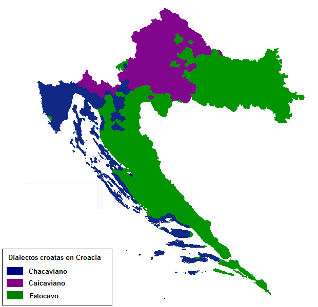 Map of the 3 main croatian dialects (in Croatia) at the end of the 20th century.